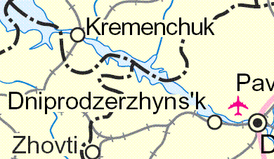 Map of Kamianske Reservoir, Ukraine Adapted from